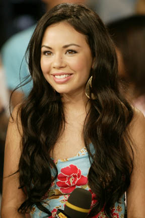 The cast of the 2007 film Bratz, at MuchMusic for a MuchOnDemand episode.